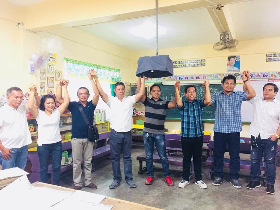 Newly Elected Barangay Poblacion Officials